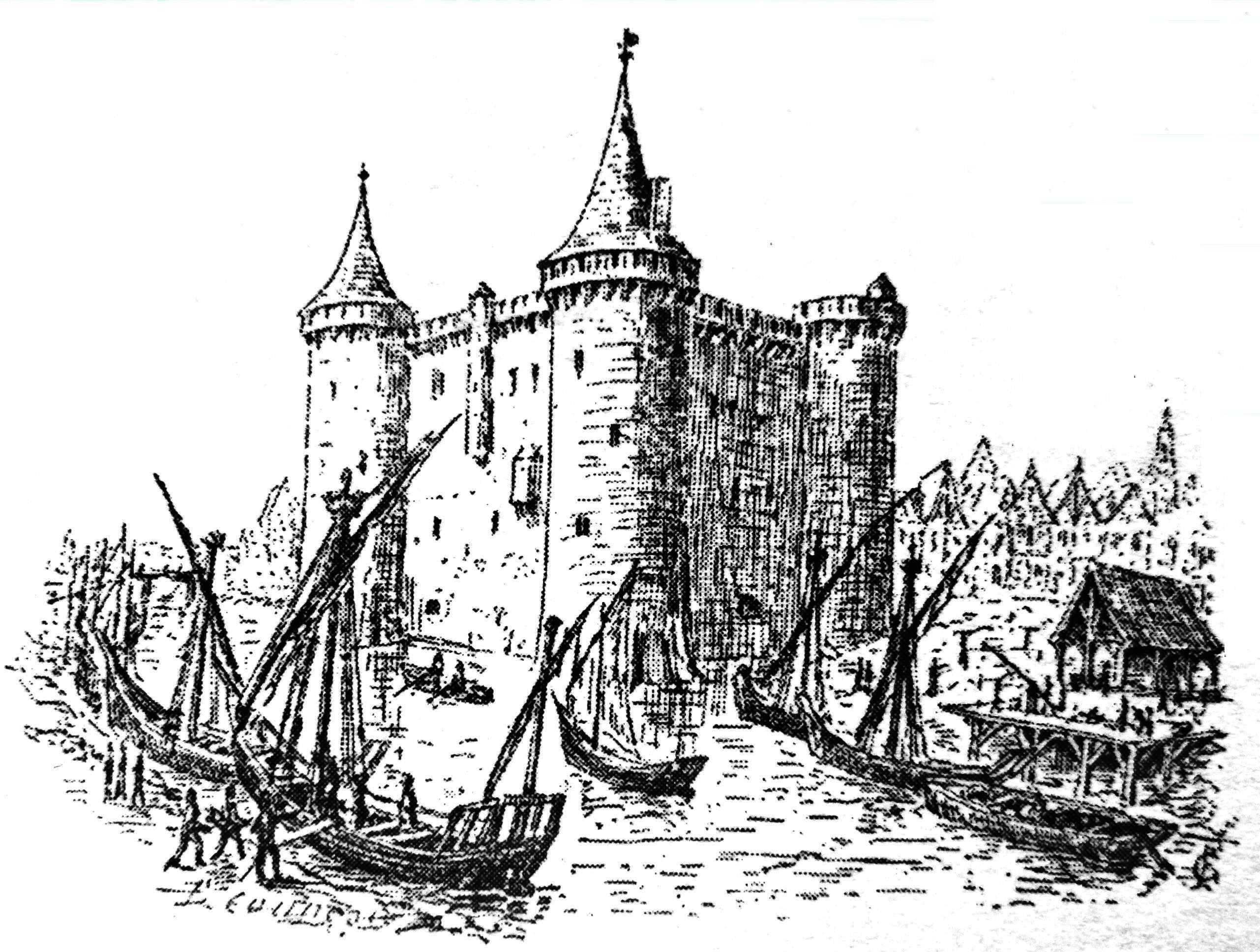 Chateau_de_Vauclerc